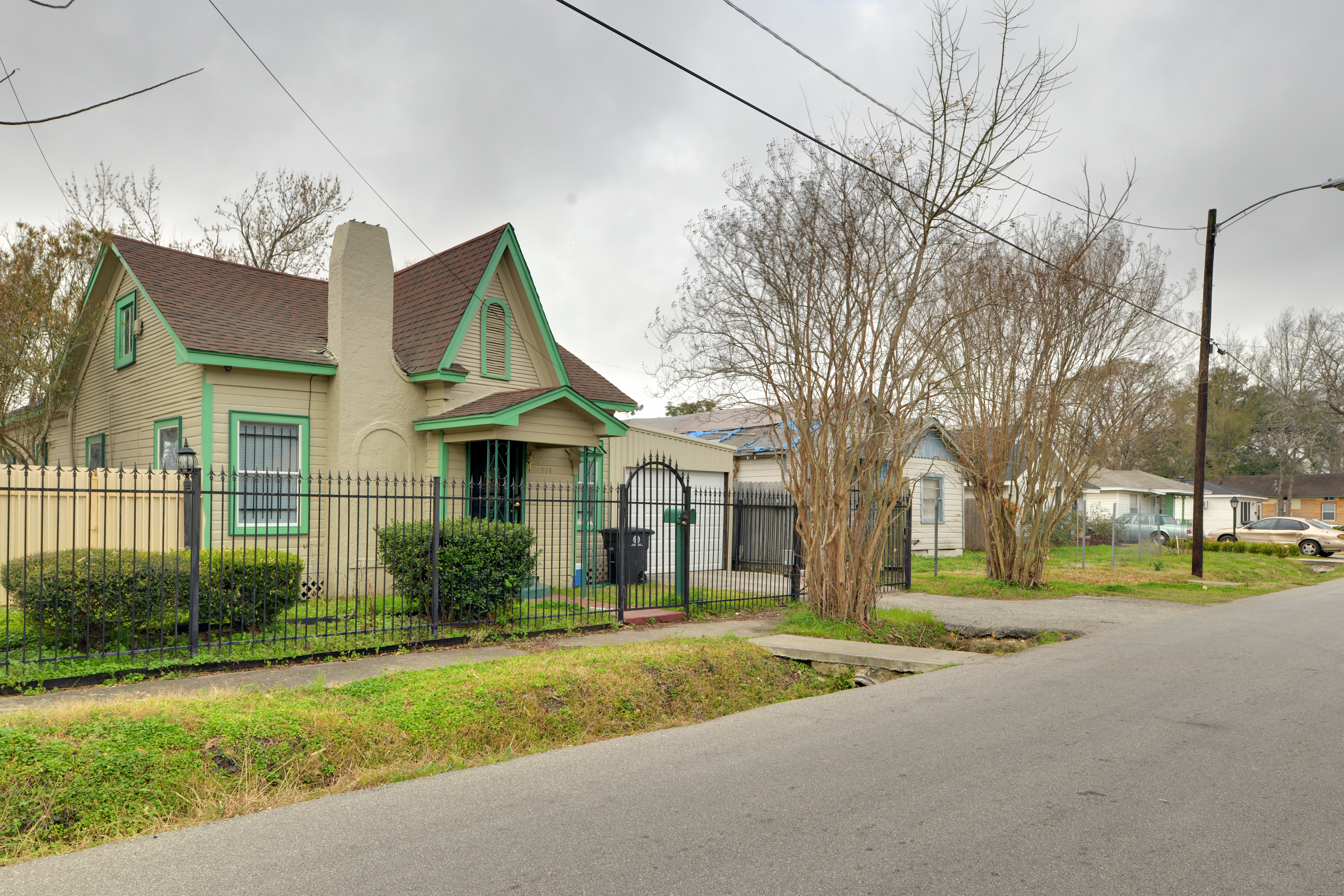 This span of properties on 34th Street, between Cortlandt and Arlington Streets, is representative of the Independence Heights Residential Historic District, Houston (Texas, USA), which is listed in the National Register of Historic Places, United States Department of the Interior.